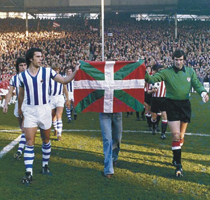 Ikurrina or Basque Flag, Basque Derby: Real Sociedad - Athletic Club, Kortabarria and Iribar. 1976, Atotxa, Donostia-San Sebastian, Basque Country.